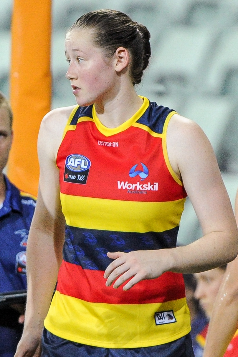 Jessica Allan in the AFL Women's preseason match between the Adelaide Football Club and Fremantle Football Club on 20 January 2018 at TIO Stadium.